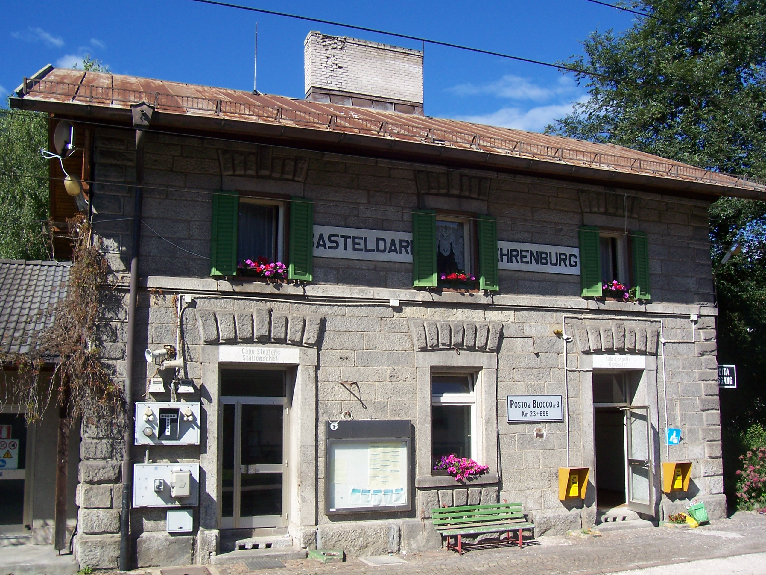 Casteldarne/Ehrenburg train station (Bolzano/Bozen province, Italy)